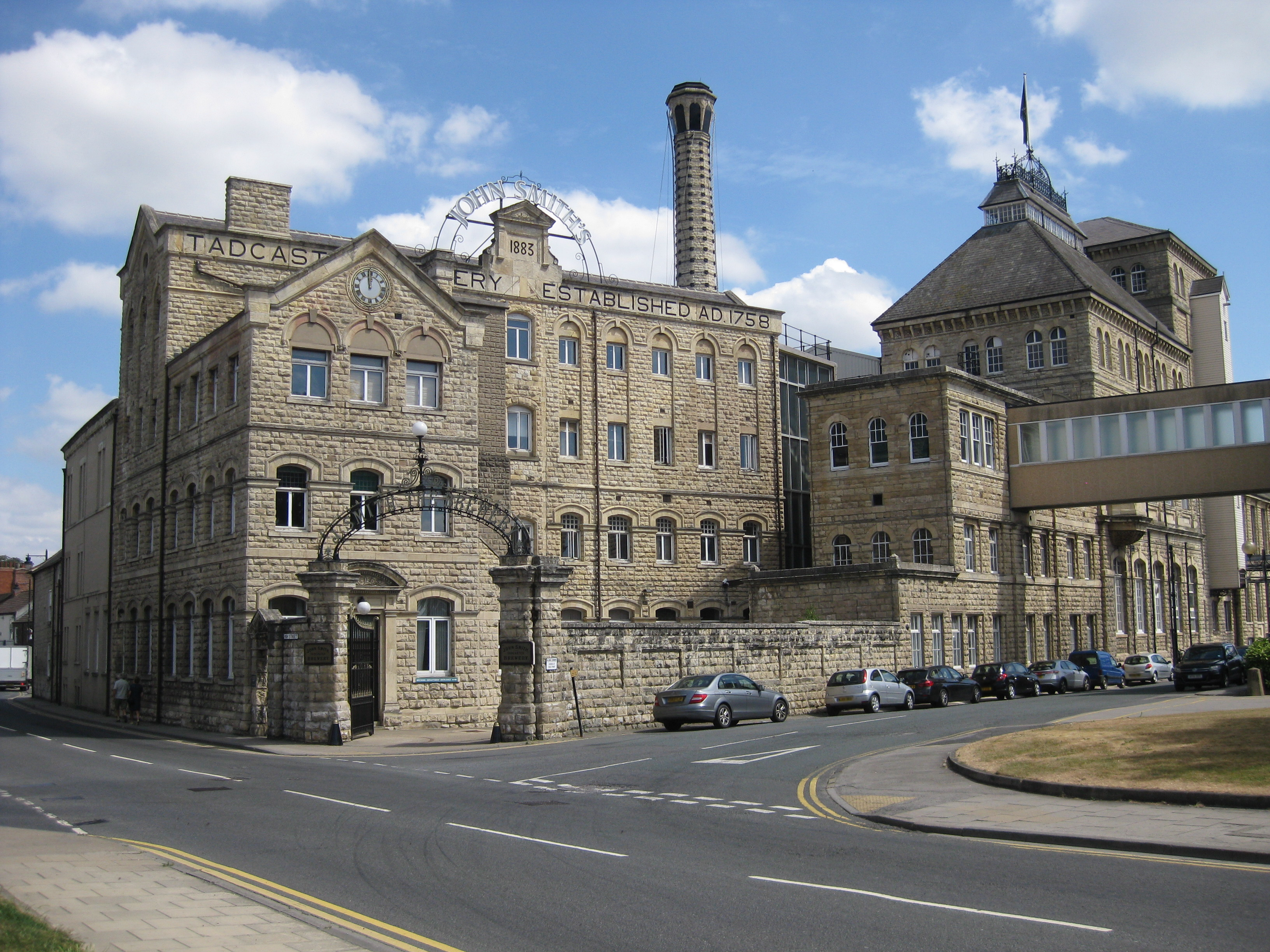 Tadcaster Brewery (John Smith's), corner of High Street (left) and Centre Lane (right), Tadcaster. Viewed from Leeds Road A659.